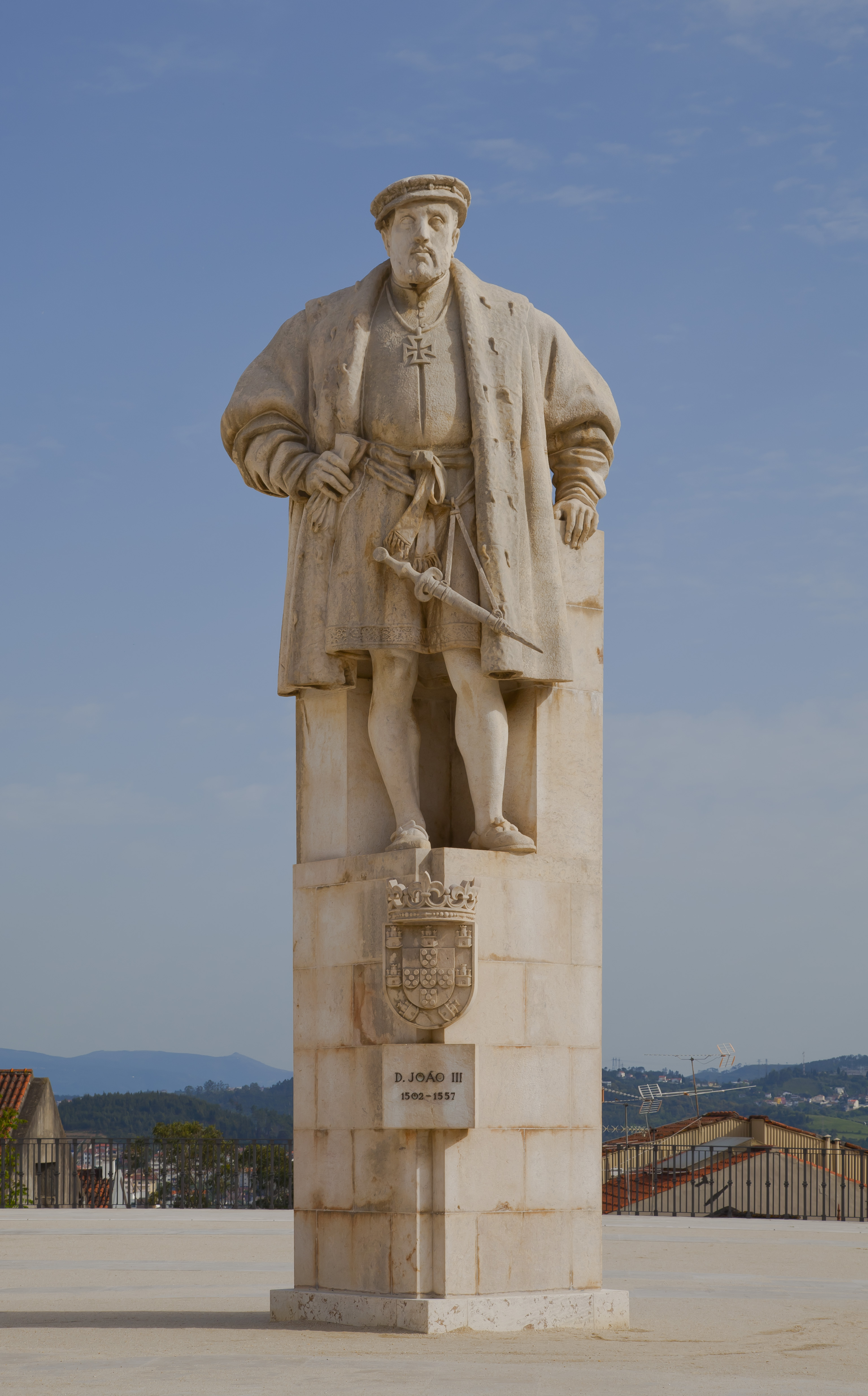 Statue of John III of Portugal, Coimbra, Portugal